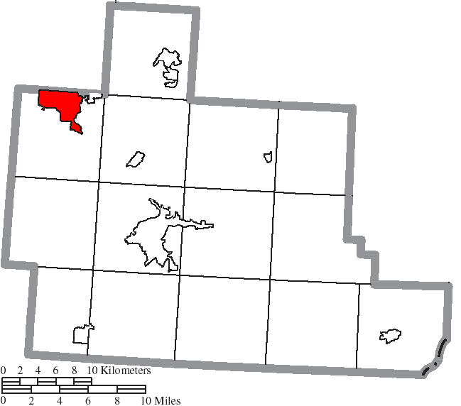 Map of the municipal and township boundaries of Athens County, Ohio, United States, as of the 2000 census, with the location of the city of Nelsonville highlighted. Township borders are shown only in unincorporated areas in order to differentiate incorporated and unincorporated areas more clearly.